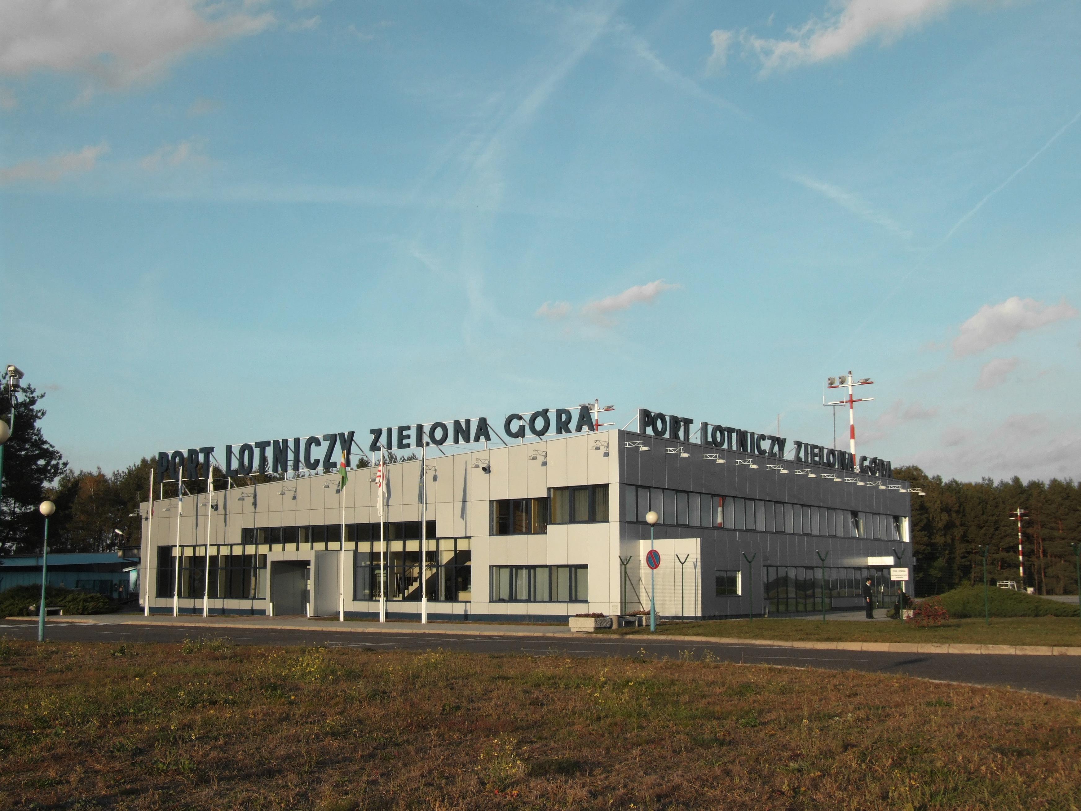 Zielona Góra Airport Author: Mohylek 14:12, 23 October 2006 (UTC)